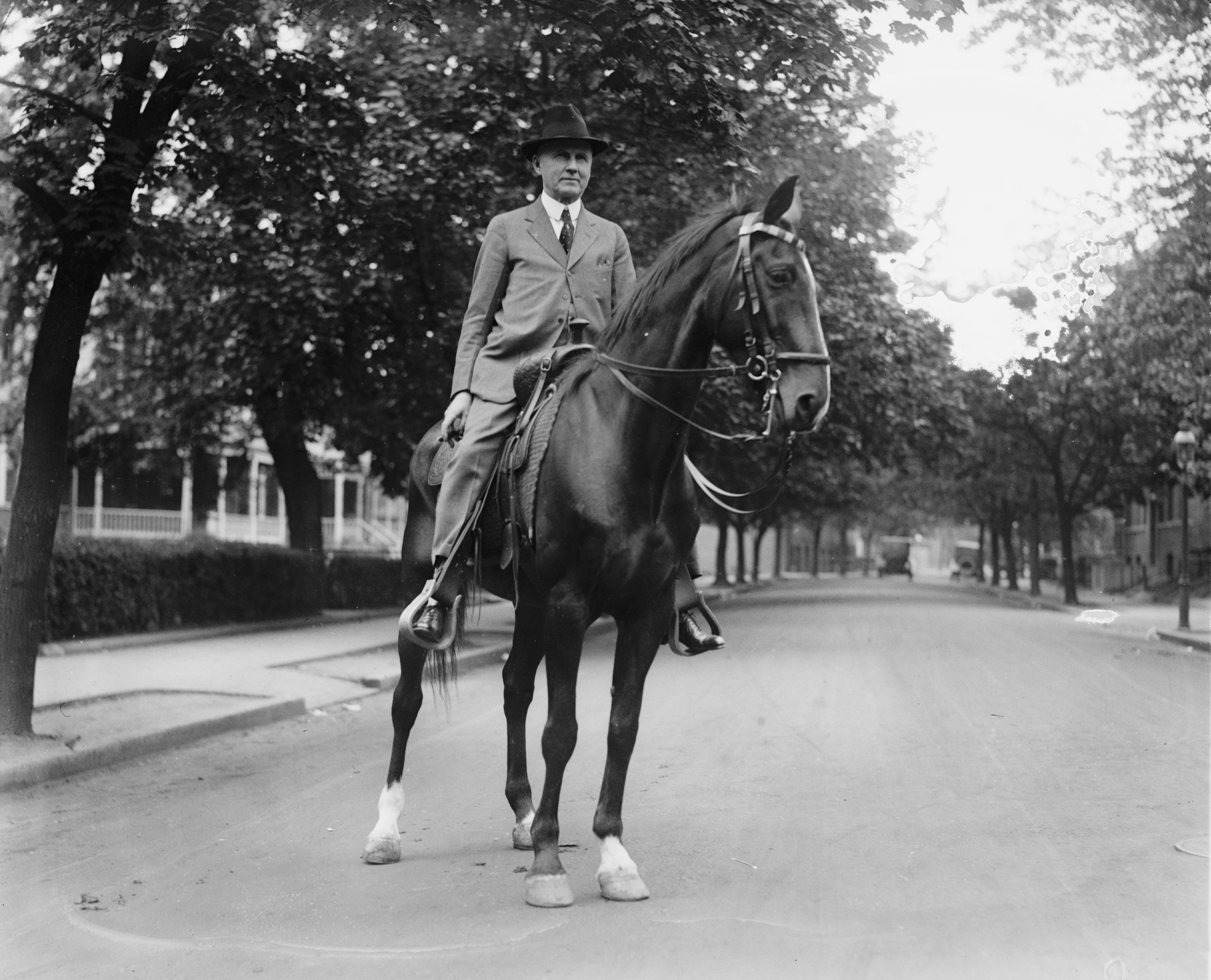 Ralph Henry Cameron, Last Congressional Delegate from Arizona Territory and U.S. Senator from Arizona